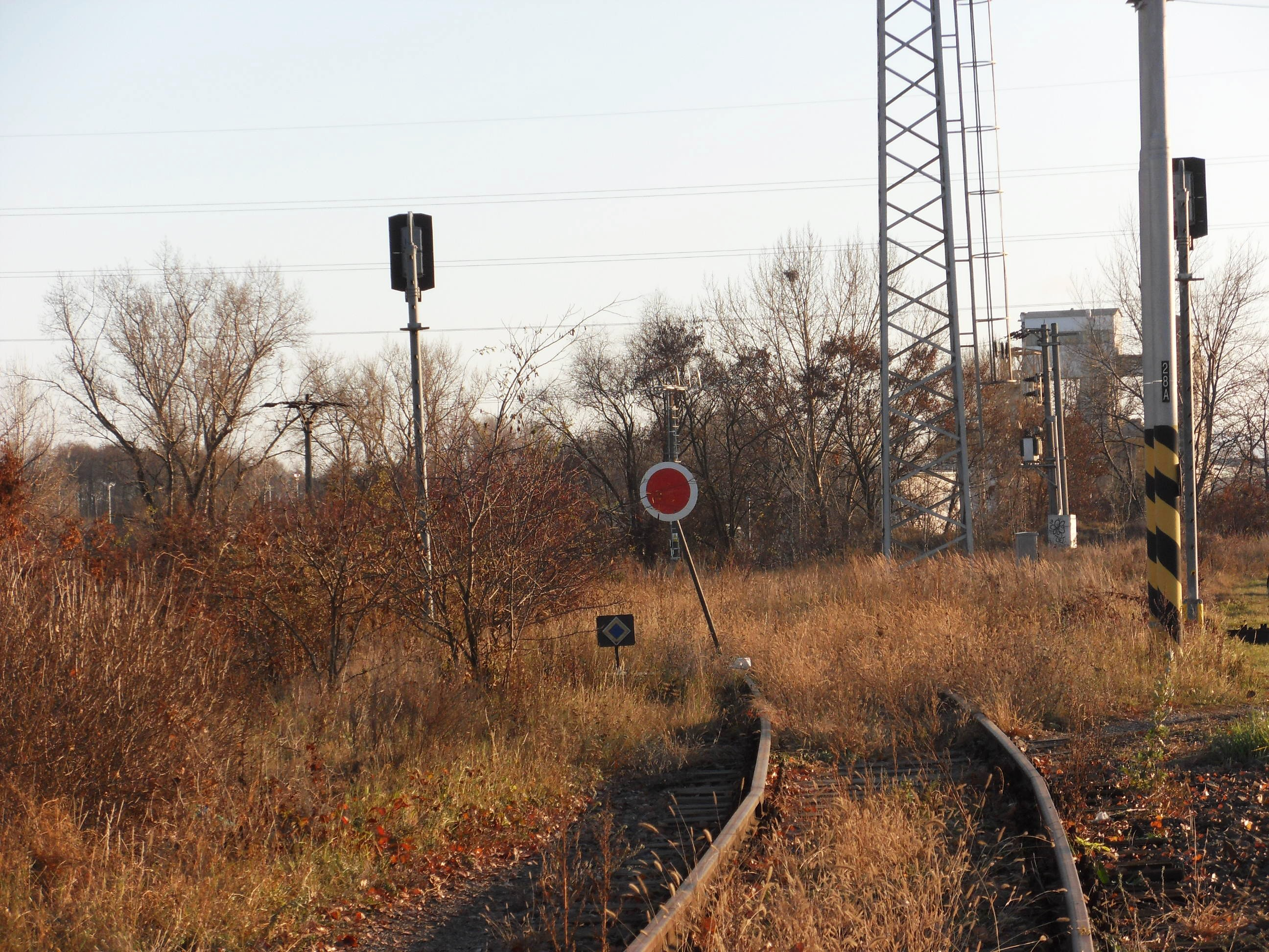 Railway line Hrušovany u Brna - Židlochovice, Hrušovany u Brna, Brno-Country District, Czech Republic